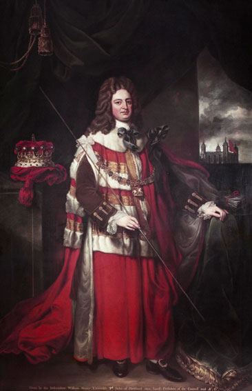 Painting after Richardson of Robert Harley, 1st Earl of Oxford and Mortimer (1661-1724), Speaker of the House of Commons 1701-05.